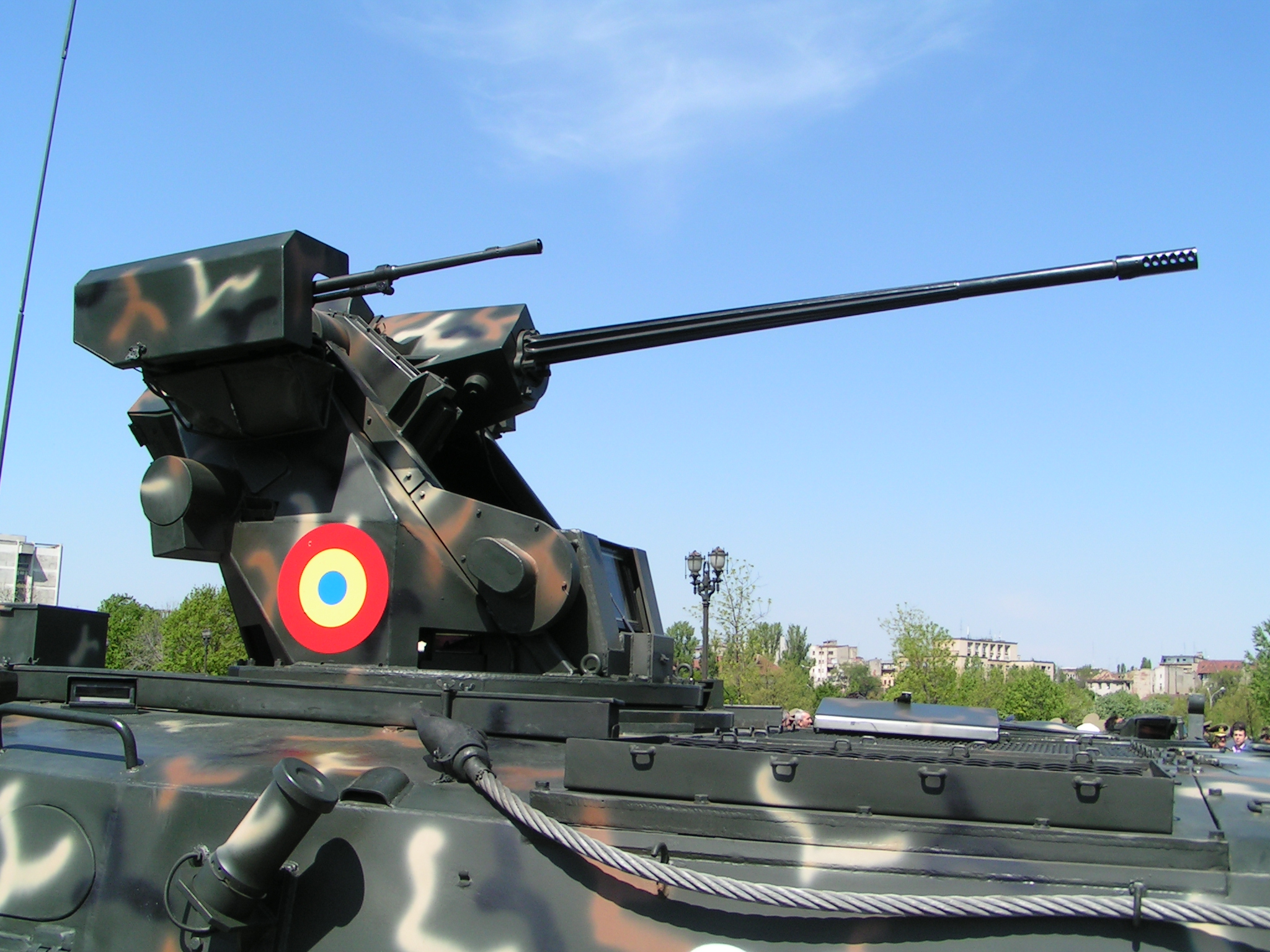 MLI-84M1, Romanian Land Forces Day, 23.04.2007m The Machine Gun And The 25 mm Gun